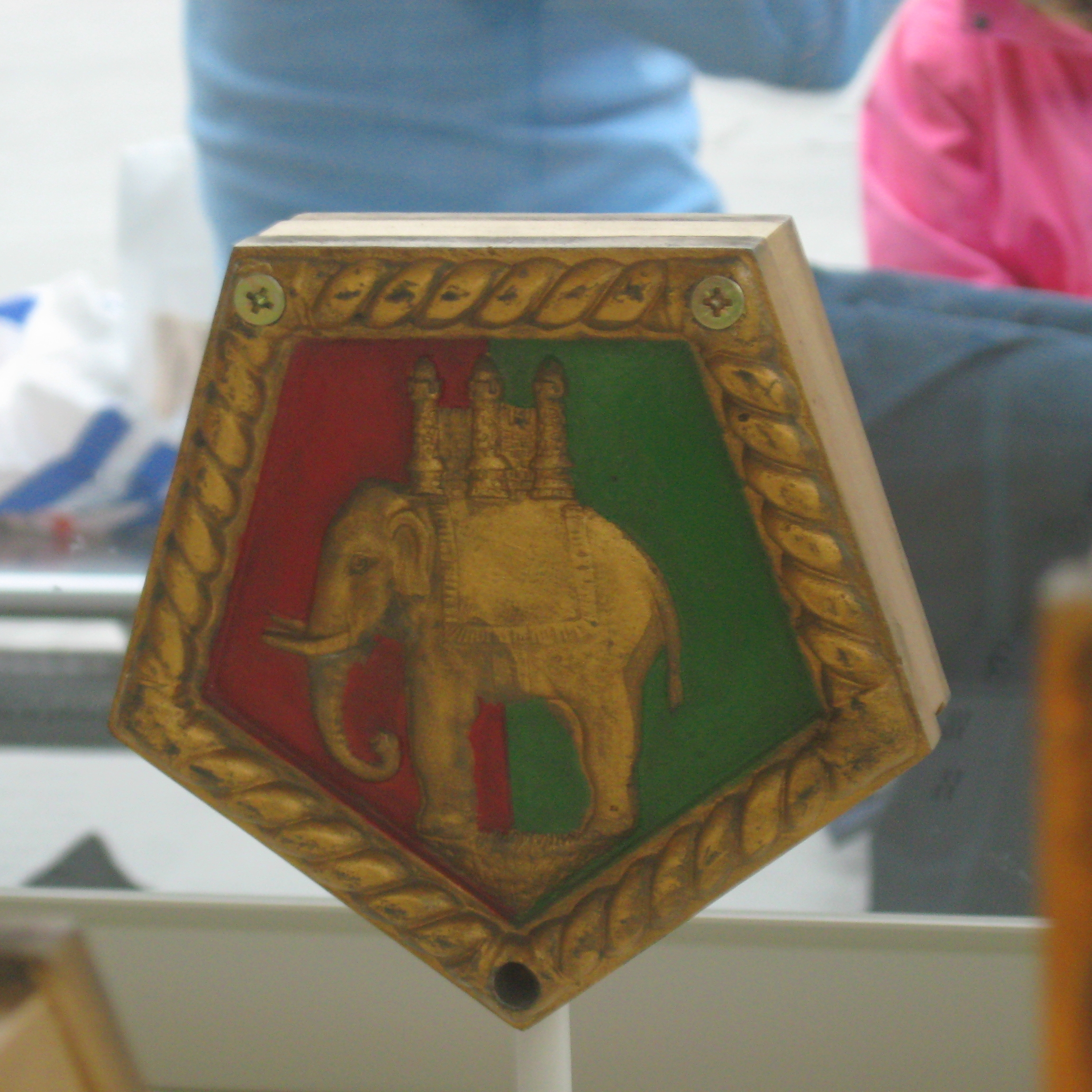 The "boat's badge" of HMS Coventry on display at the National Maritime Museum, London.